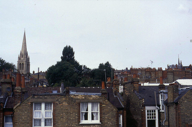 View of Muswell Hill Taken from the old railway line, now renamed the Parkland Walk.